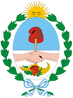 Coat of arms of Mendoza Province of Argentina.